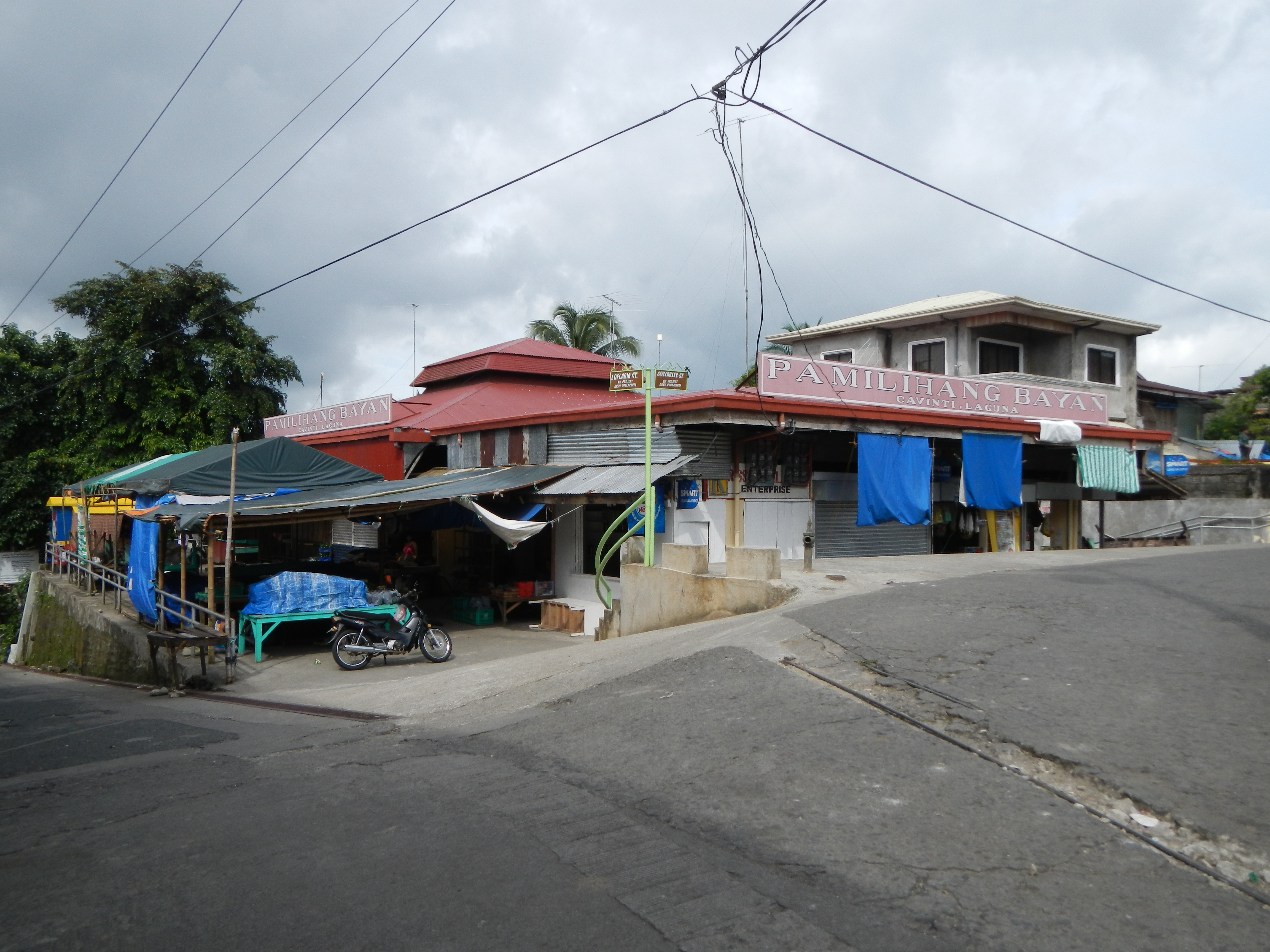 (General description, 3-dimension angle by angle photography of this town, church & landmarks) -- of the - Cavinti Municipal Hall [1] Coordinates: 14°14'43"N 121°30'23"EWebsite [2], police station, covered court, and surrounding Municipal offices.Cavinti Things to Do Caliraya Lake and Spillway Bumbungan Eco Park, Japanese gardenm Lumot lake, Yamashita shrine,Website-- Cavinti, Laguna,[3]